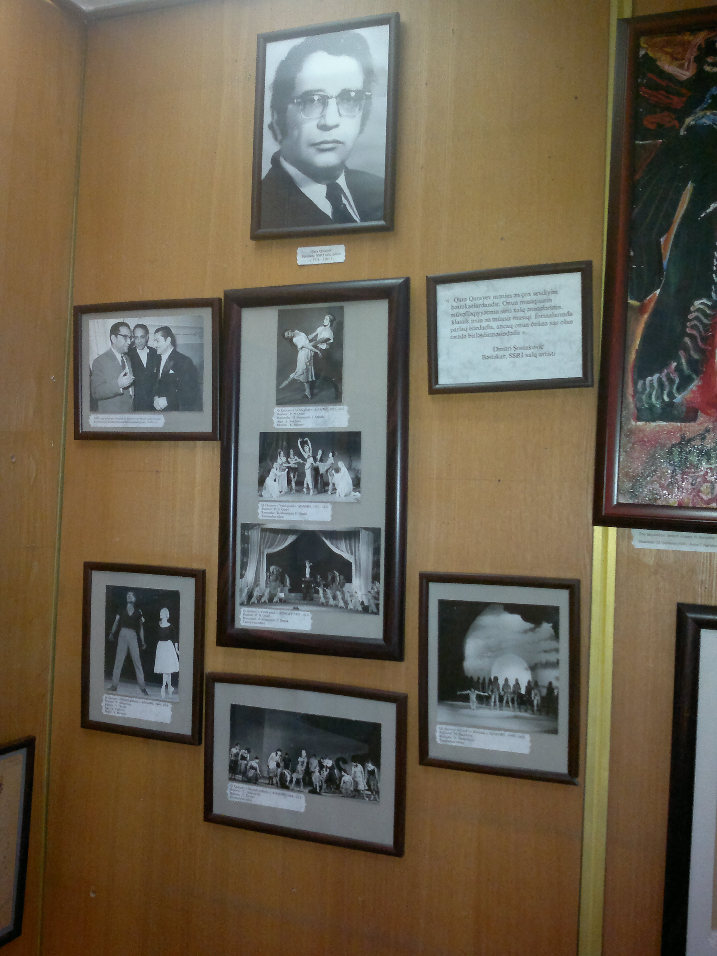 Exibition related to Gara Garayev. Azerbaijan State Theater Museum.